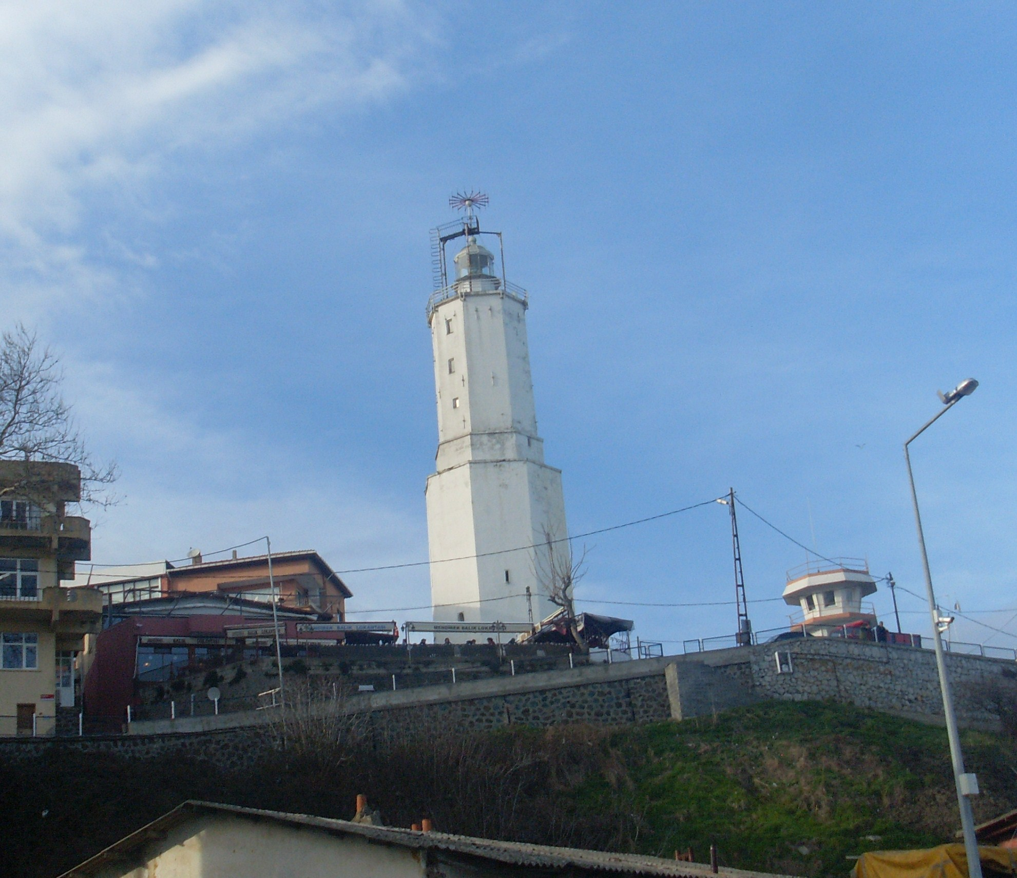 Rumeli Lighthouse, Sarıyer p3